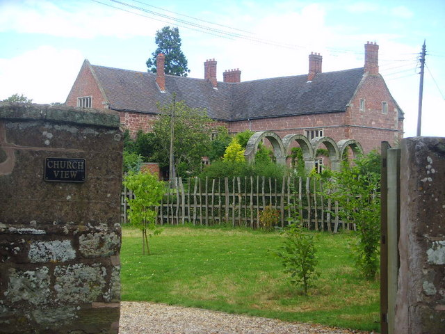 Church View, High Ercall